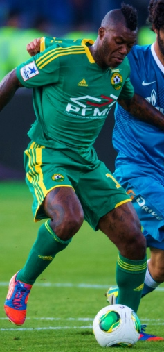 Djibril Cissé